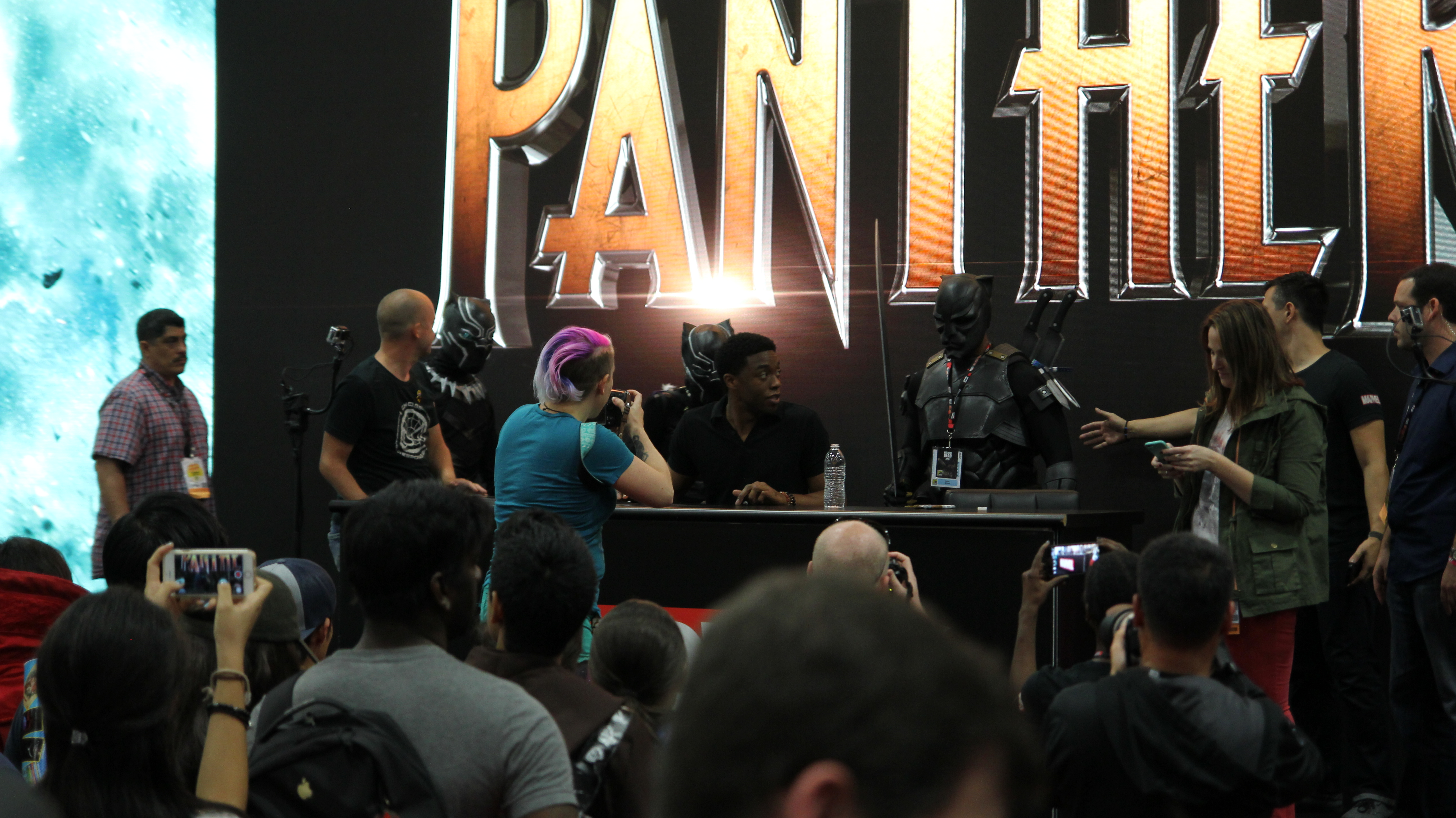 Chadwick Boseman promoting Black Panther at the 2016 San Diego Comic-Con International.